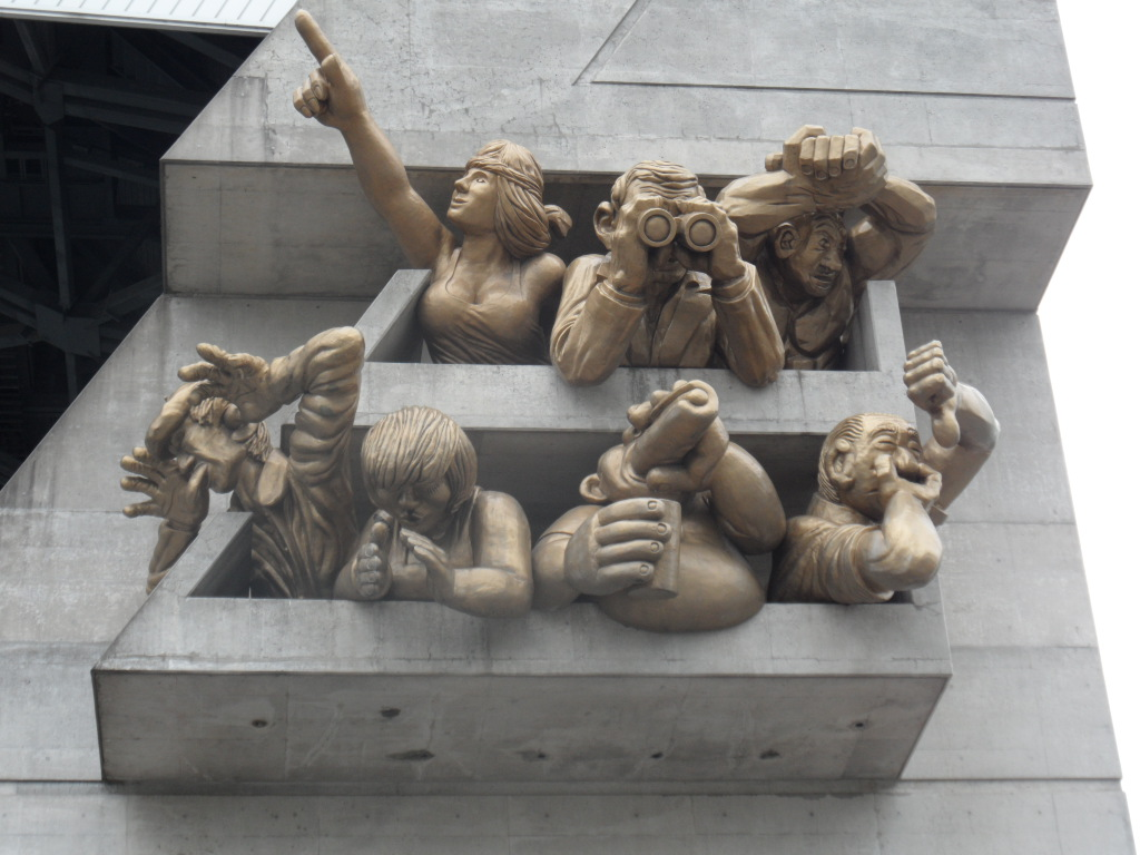 Michael Snow: The Audience (1989) located at the SkyDome (now Rogers Centre in Toronto) a collection of larger than life depictions of fans located above the northeast and northwest entrances. Painted gold, the sculptures show fans in various acts of celebration.